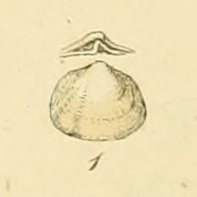 Poromya granulata Nyst. From Illustrated Index of British Shells, Plate II., Fig 1.